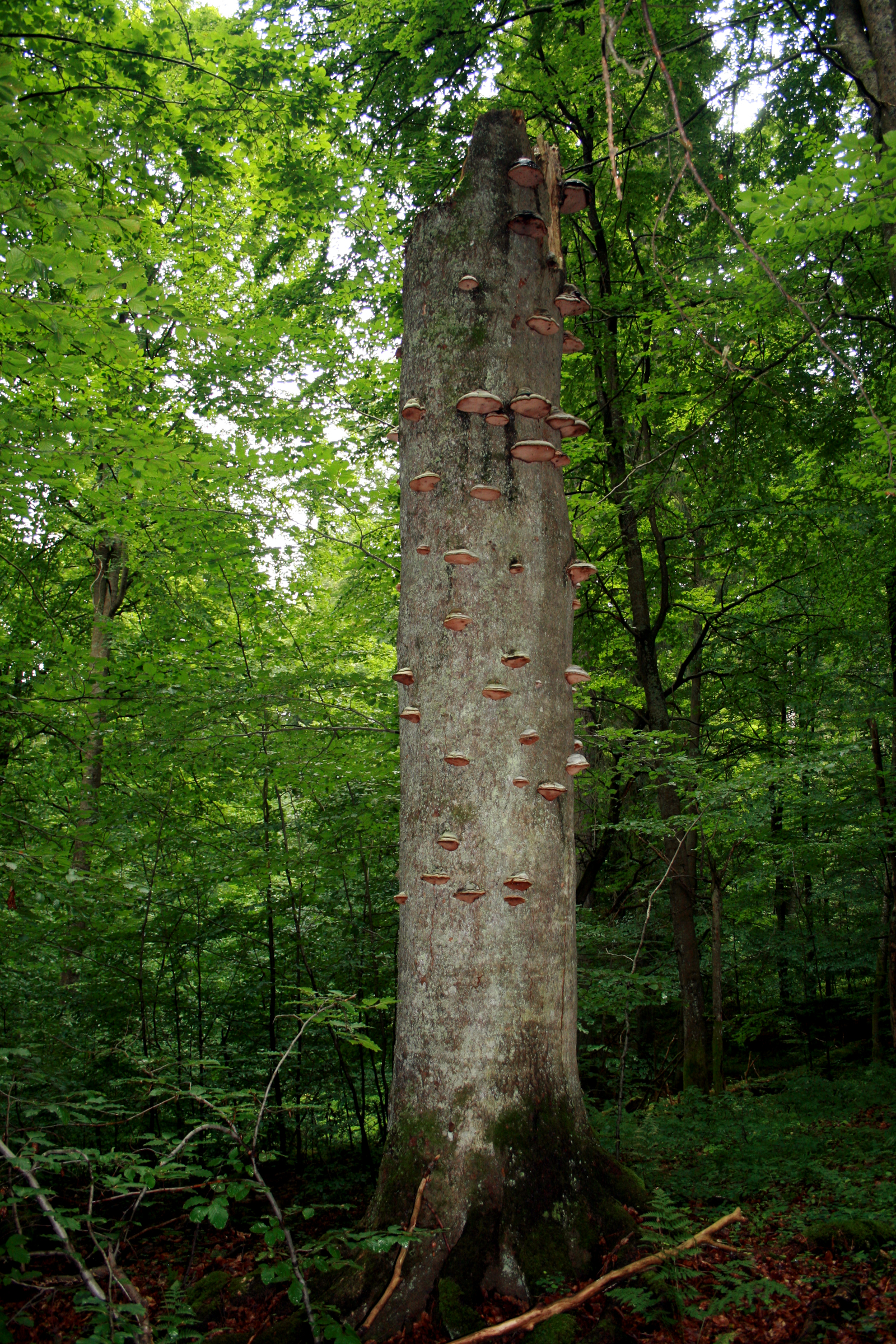 Small forest sanctuary Žofínský prales in Novohradské hory, south Bohemia, Czech Republic